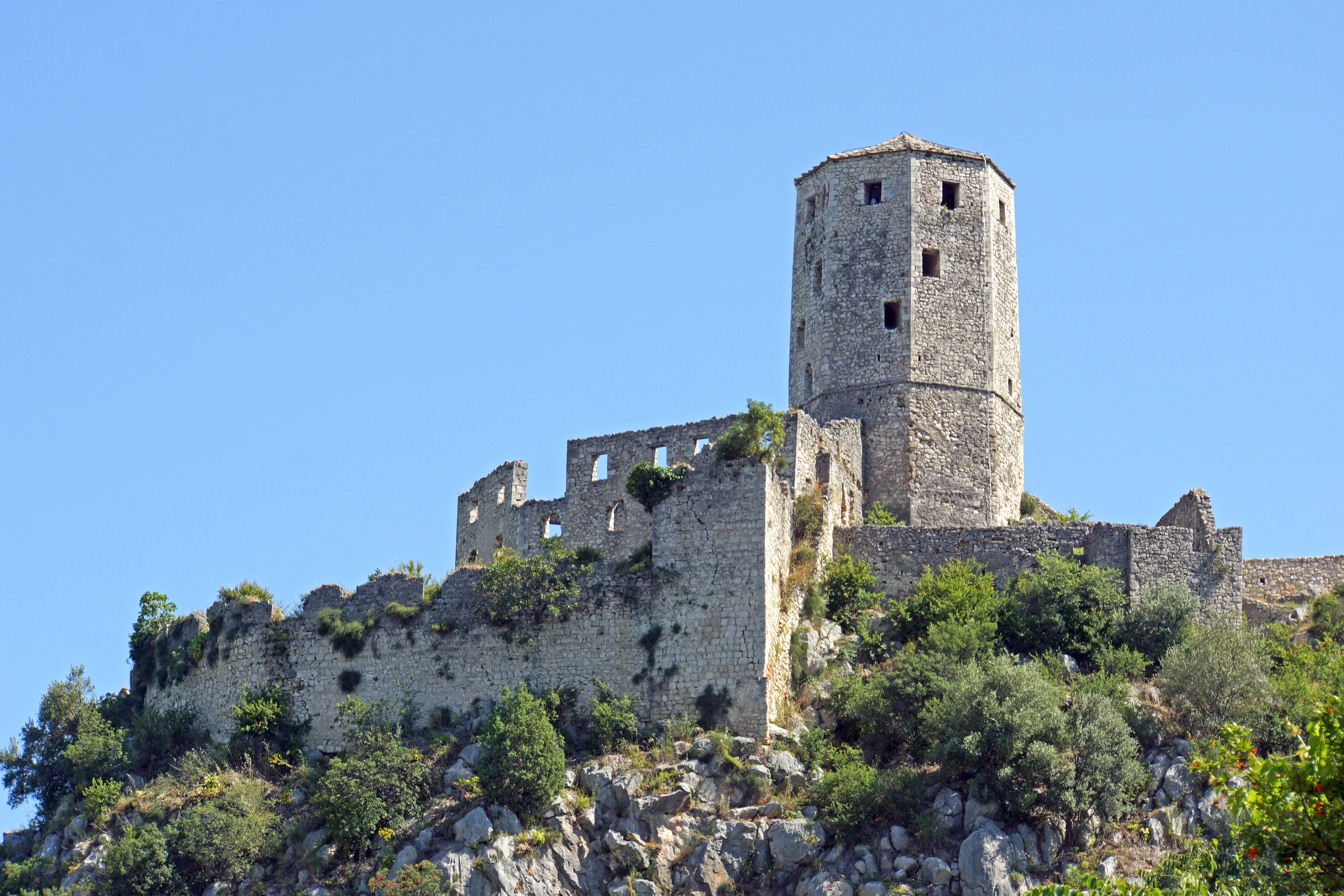 PLEASE,invitations or self promotion in your comments, THEY WILL BE DELETED. My photos are FREE for anyone to use, just give me credit and it would be nice if you let me know, thanks - NONE OF MY PICTURES ARE HDR. The historic site of Počitelj is located on the river Neretva and it is south of Mostar. It is believed that the fortified town along with its settlements were built by Bosnia's King Stjepan Tvrtko I in 1383. The walled town of Počitelj evolved in the period from the 16th to the 18th centuries. It is a fortified complex, in which two stages of evolution are evident: medieval, and Ottoman. FORT - The fort of Počitelj was built between the fifteenth and eighteenth centuries, with intervals when construction was suspended. The original mediaeval nucleus of the fort is the oldest walled section, where two stages of construction can be identified: the older, inner town or fortress (a donjon tower with a small ward or bailey) from the late fourteenth century, with later additions, alterations and reinforcements dating from the second half of the fifteenth century. To judge from the layout of the oldest parts of the fortress it may be assumed that there was a small settlement below the fortifications, dating from an earlier or the same period as the fortifications themselves. Somewhat prior to 1698, the fortress was considerably enlarged and fortified with a stronger system of defense. The town was walled so as to form an inner bailey from the square tower, two bastions (Mehmed-paša's and Delibaša's), Dizdar's house, a granary, the fort's mosque and a "water-tower" - a cistern with an entrance and steps leading to the water, two large gateways and two small ones. During the 1992-96 war in BiH the fortress suffered no serious damage.